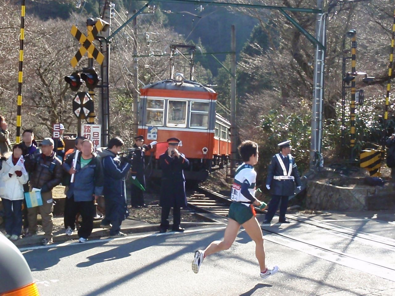 When the runner of Hakone-ekiden Relay Race passes, Hakone Tozan Railway stops the train in this side of the railroad crossing.